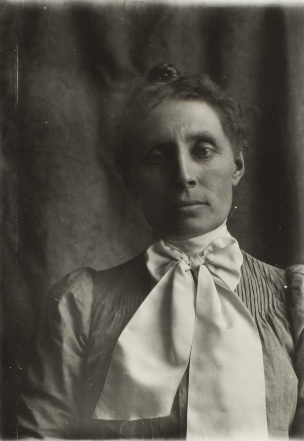 Julia E. Hoffman (American, 1856-1934), Untitled (Woman), ca. 1890s (negative); 1980s (print), gelatin silver print, Bequest of Margery Hoffman Smith, no known copyright restrictions, 2005.9.1. From Portland Art Museum’s Online Collections. [Uploader: This is most likely a self portrait of Julia Christiansen Hoffman.] Title: Untitled (Woman) Artist: Julia E. Hoffman (American, 1856-1934) Related People: printer: Terry Toedtemeier (American, 1947-2008) Date: ca. 1890s (negative); 1980s (print) Medium: gelatin silver print Dimensions (H x W x D): image: 7 in x 5 in; sheet: 7 7/8 in x 6 in Collection Area: Photography; Northwest Art Category: Photographs Object Type: photograph Culture: American Credit Line: Bequest of Margery Hoffman Smith Accession Number: 2005.9.1 Copyright: public domain Terms: gelatin silver prints / photographs / portraits